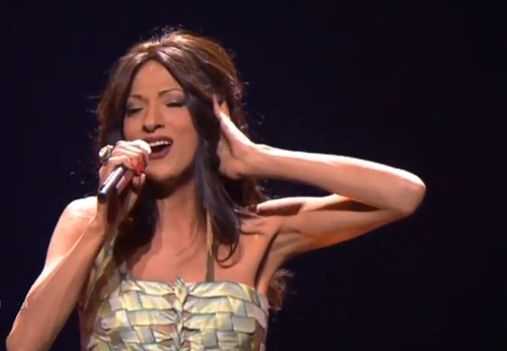 Dana International performing Ding Dong at Dusseldorf